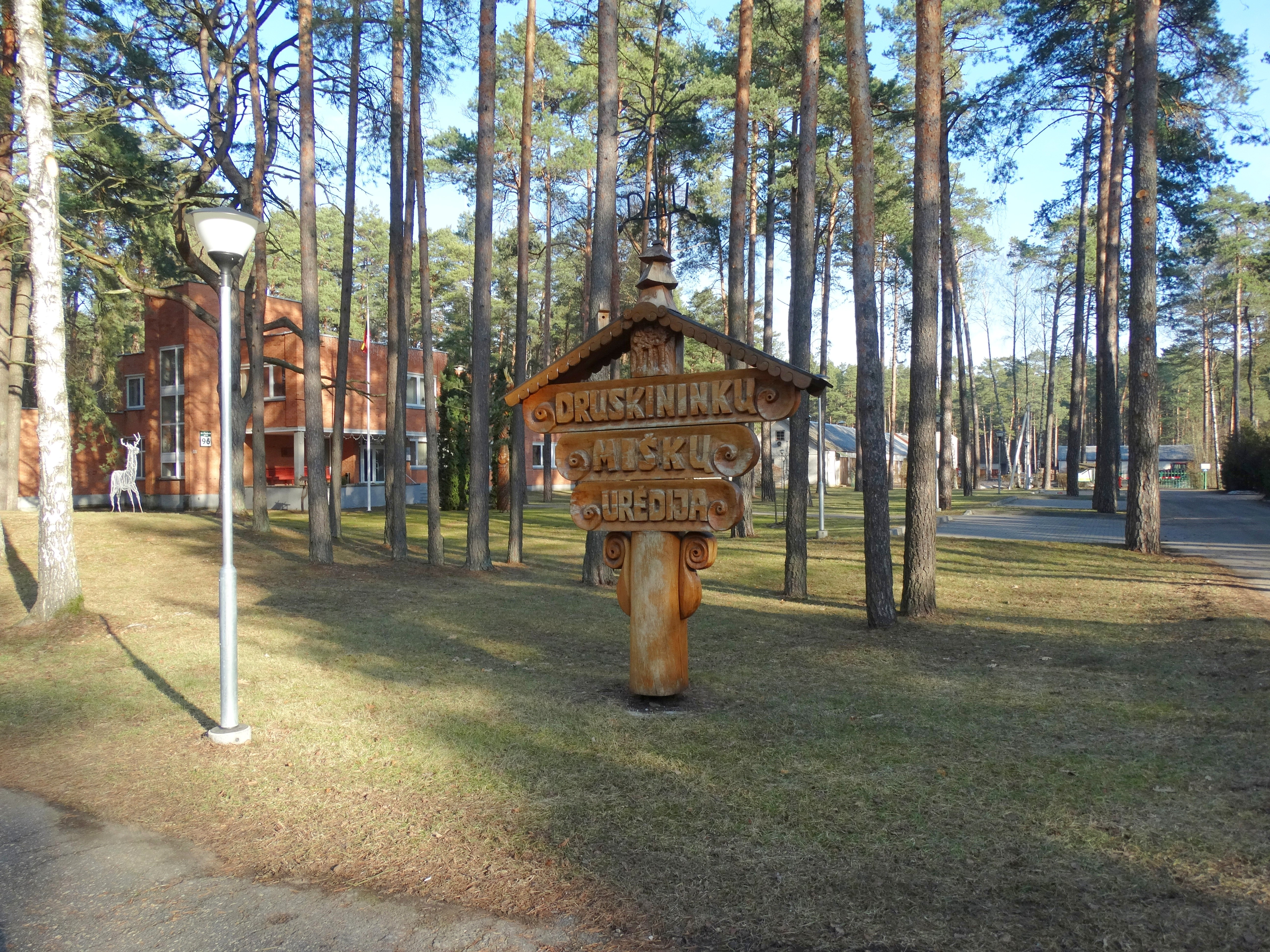 Forest enterprise, Druskininkai, Lithuania